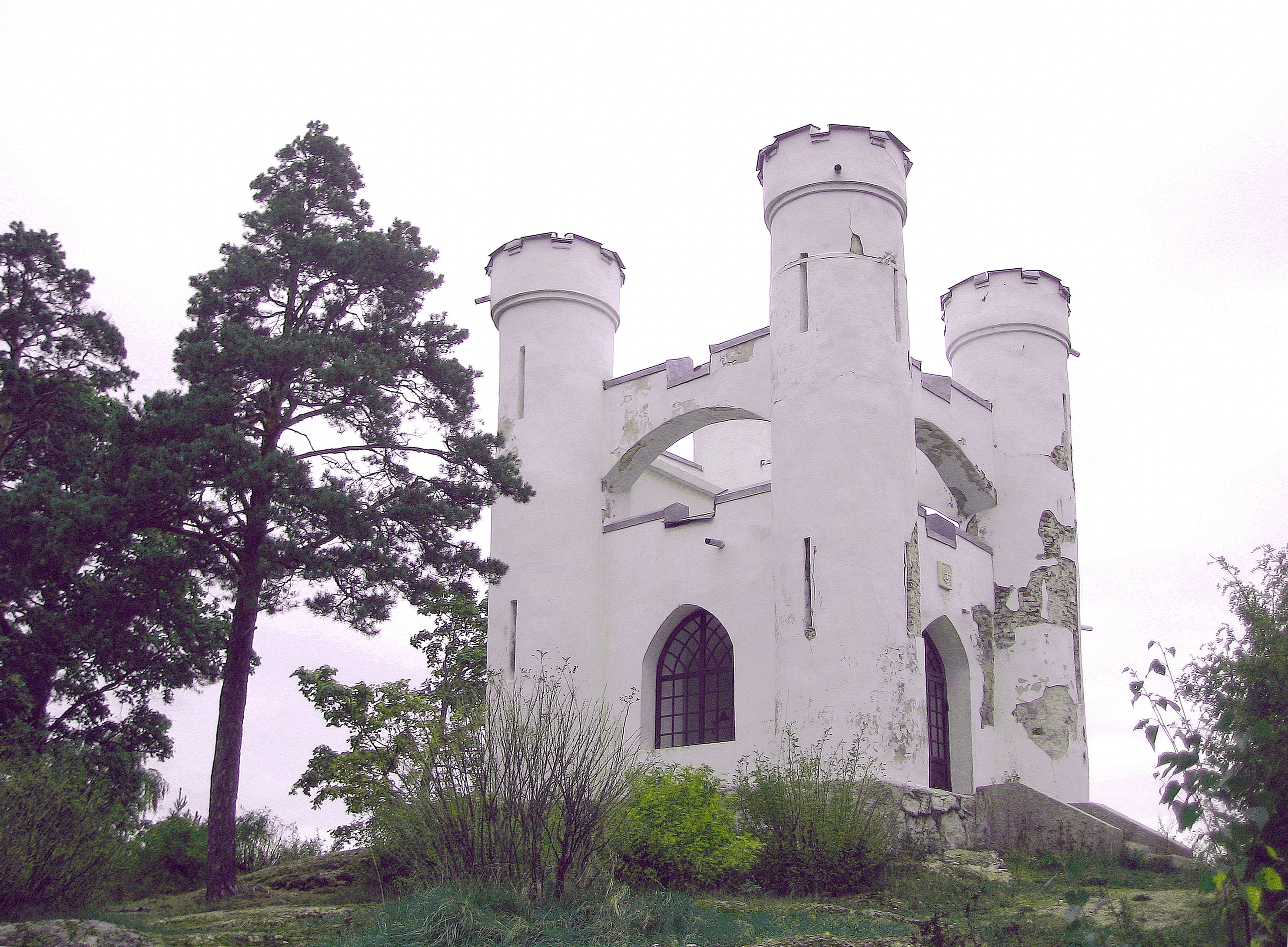 Capella Ludwigsburg: Monrepos Park, Lyudvigshtayn island Vyborg, Vyborg district, Leningrad region